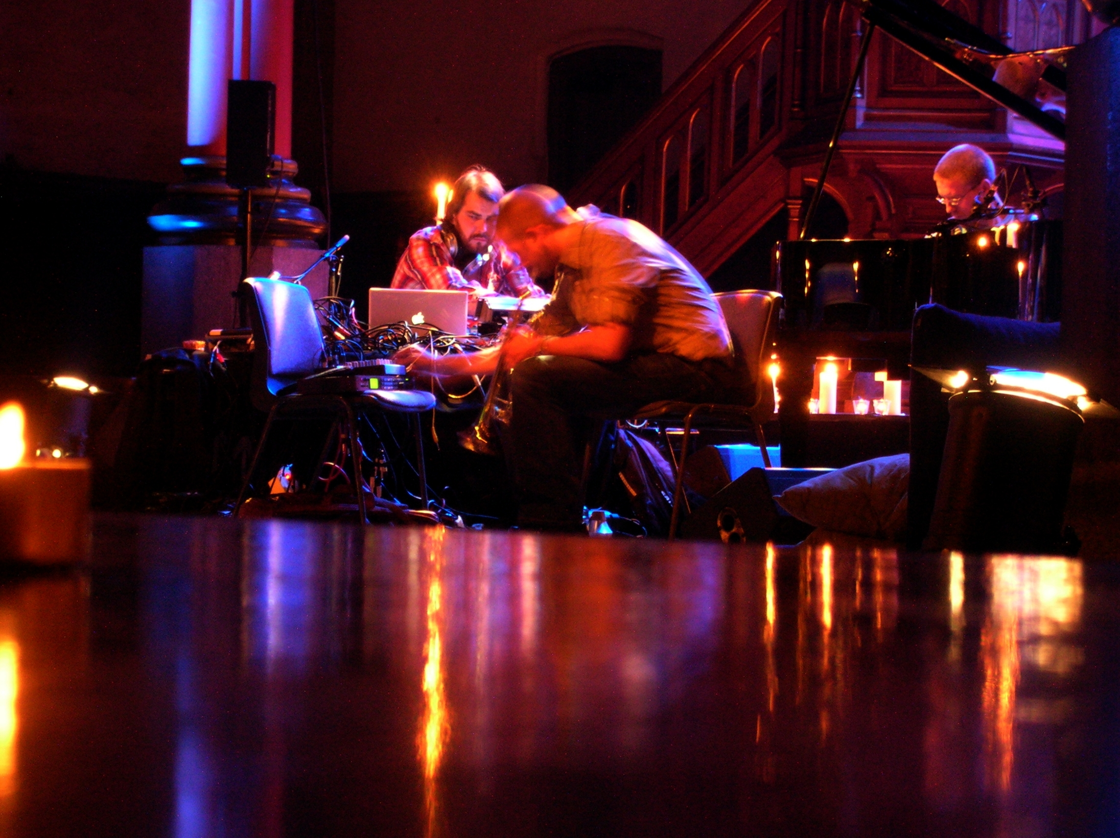 Concert Psalms in Kulturkirken Jakob in Oslo (Norway)